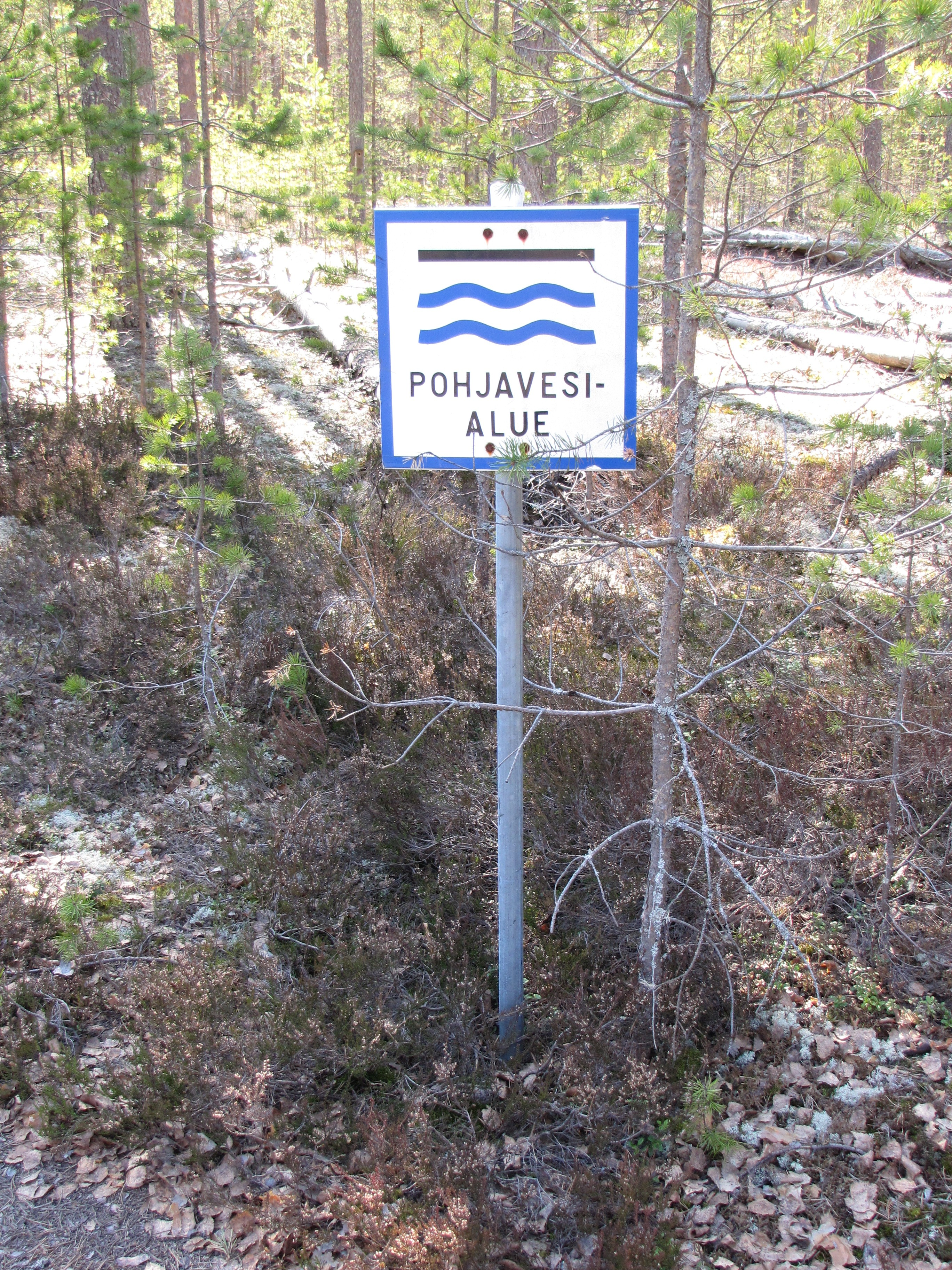 Finnish Kauhaneva–Pohjankangas National Park locate in the groundwater area ("Pohjavesialue" = groundwater area).